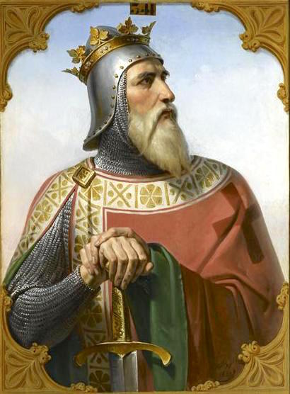 Imaginary portrait of Robert Guiscard by Merry-Joseph Blondel (1781–1853)